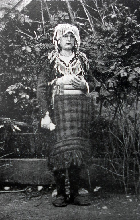 Woman of the Hoti tribe (northern bank of Lake Shkodra)